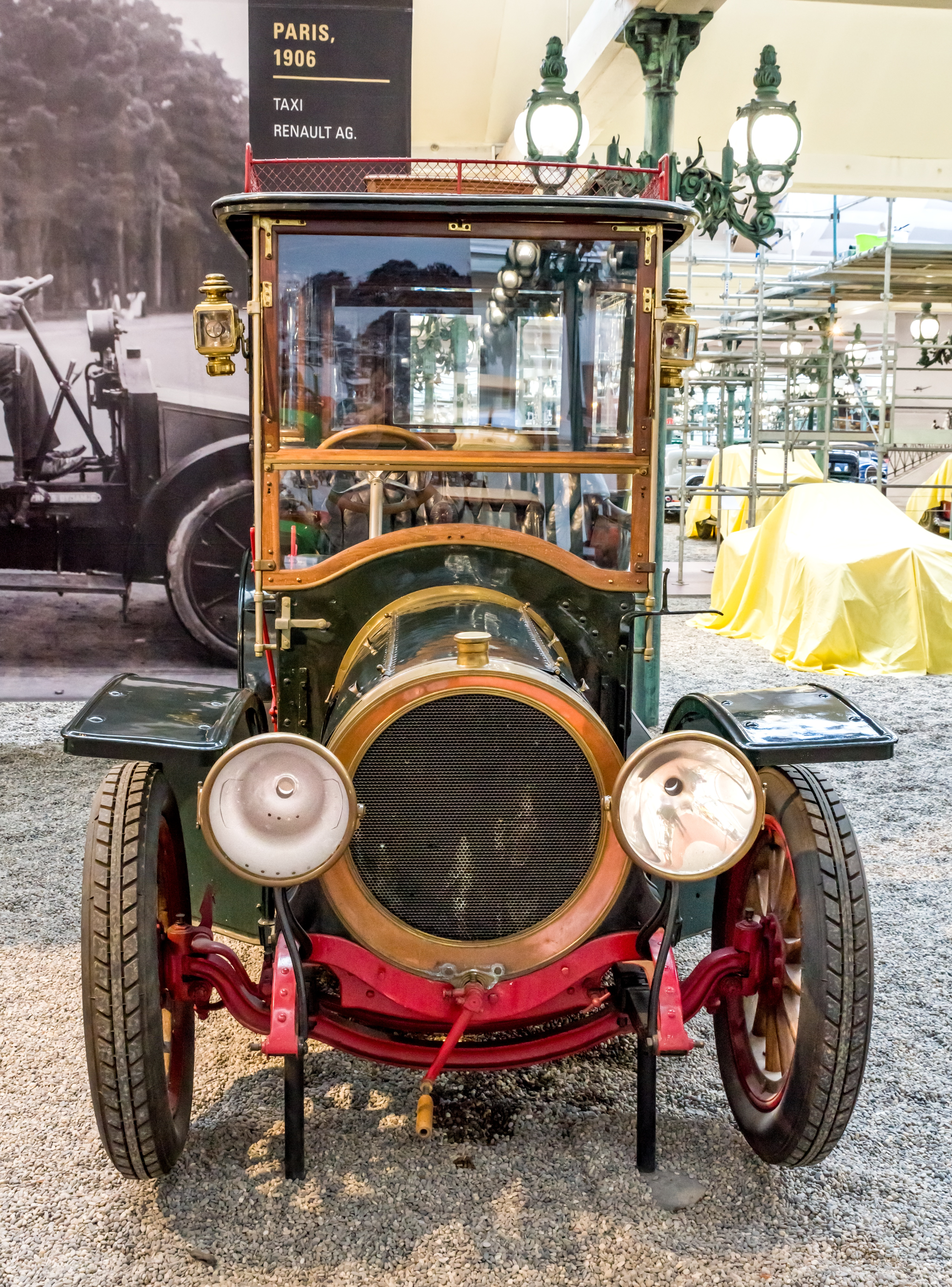 pictures from the Cité de l’Automobile – Musée National – Collection Schlump in Mulhouse, France ptictures from the 10. may 2018